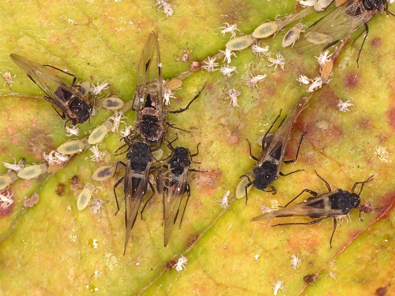 Anoecia corni, Location: Reuver, the Netherlands.